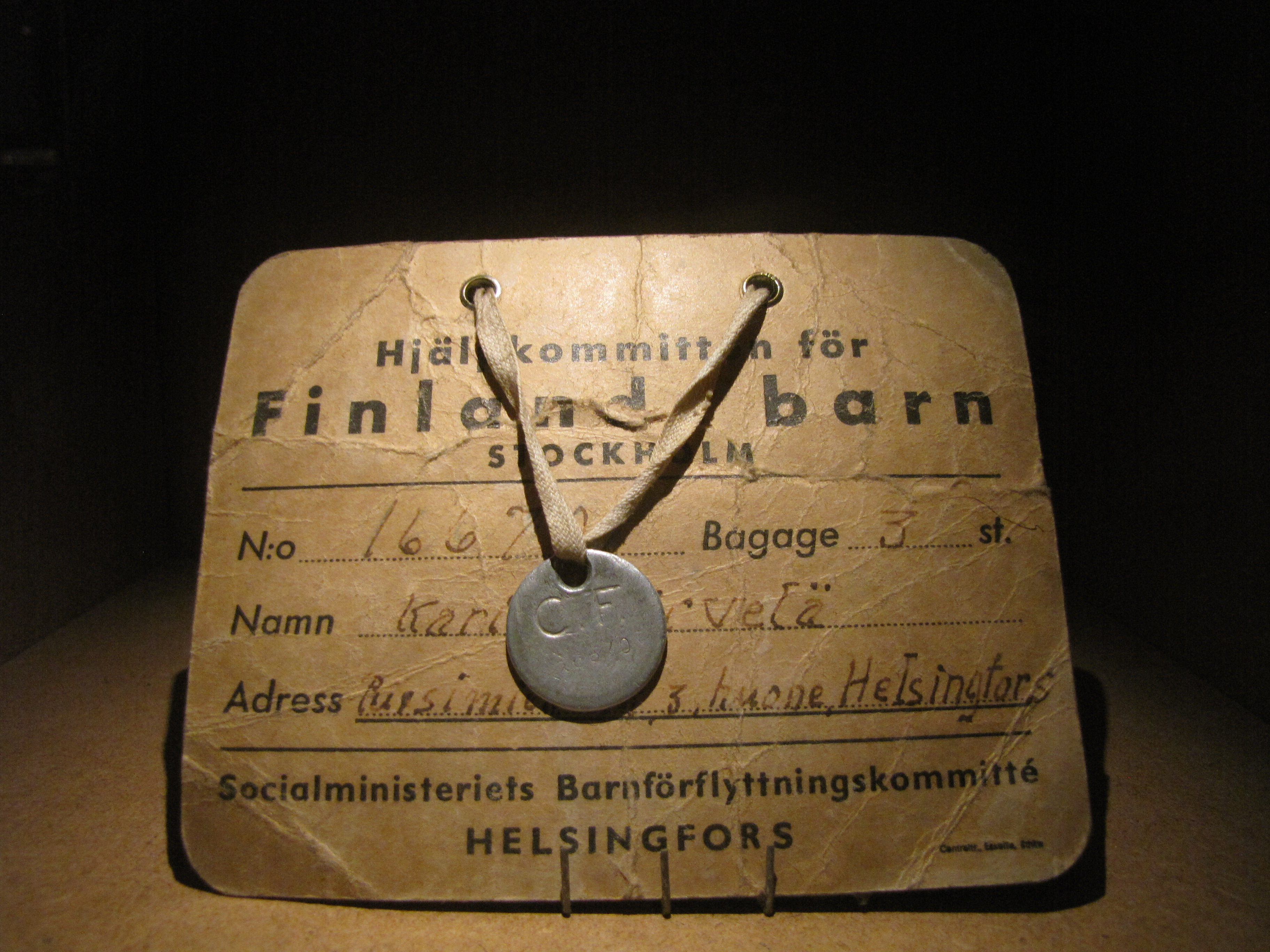 Identification document and tag of a Finnish war child. Photographed in the Helsinki City Museum.